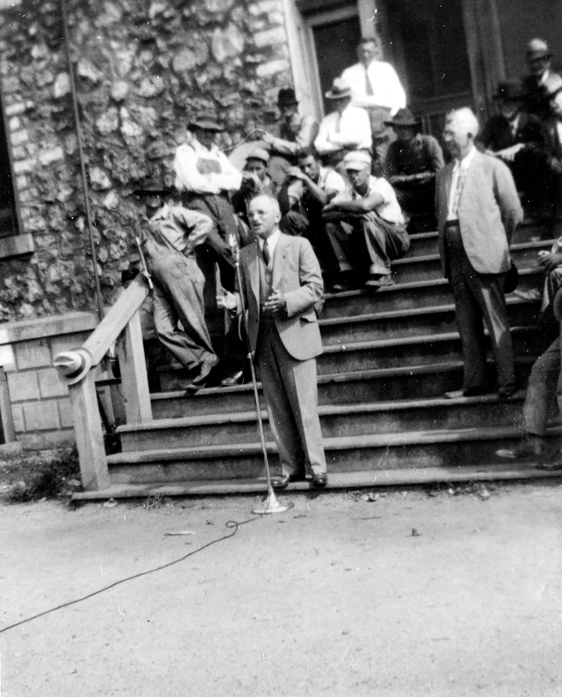 Harry S. Truman on the campaign trail in 1934 while running for the U.S. Senate